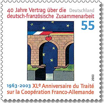 Stamp from Deutsche Post AG from 2003, 40th anniversary of Élysée Treaty